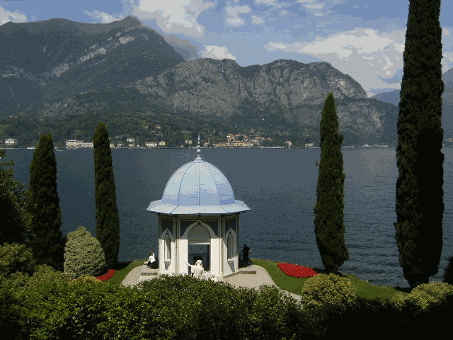 Italy, Lake Como, Bellagio, temple in the garden of Villa Melzi